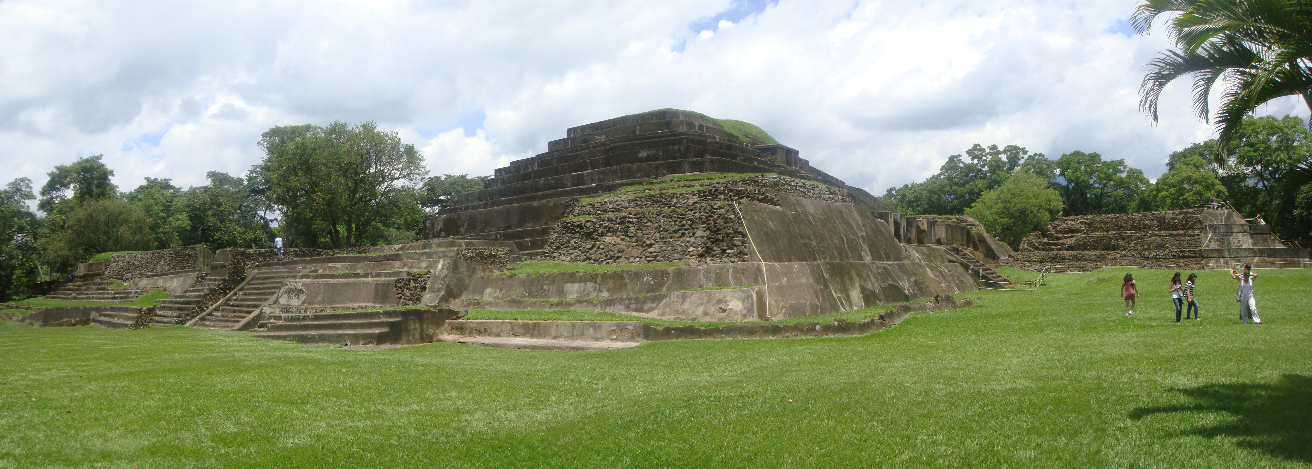 Panoramic view of the northern and western sides of the Tazumal main pyramid (structure B1-1) and structure B1-2 (right side). Chalchuapa, El Salvador.